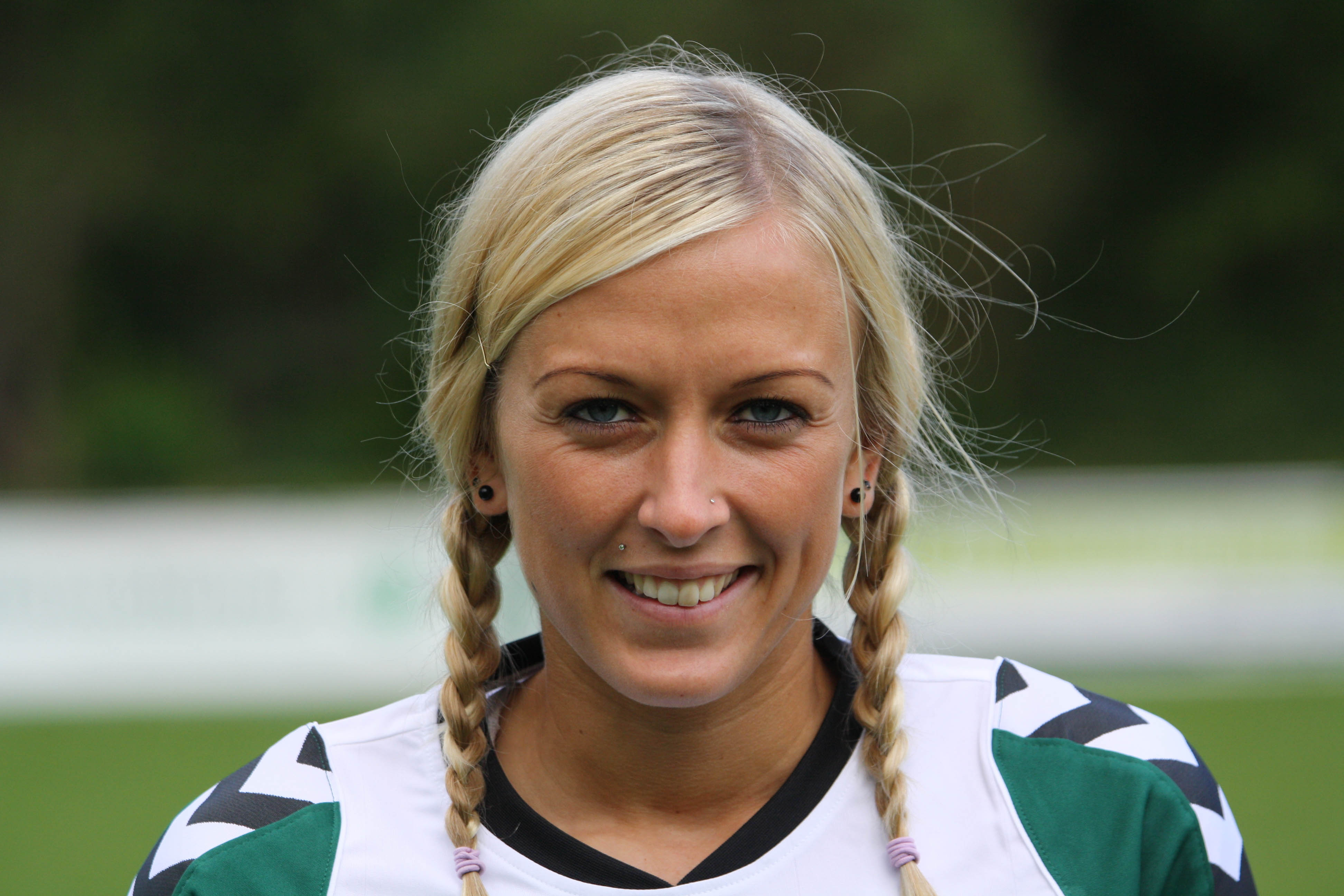 Mandy Islacker, FCR 2001 Duisburg, Saison 2011/12